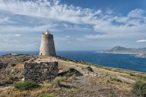 Torre de Los Lobos (Faro de Punta de la Polacra) (Punta de la Polacra Lighthouse)